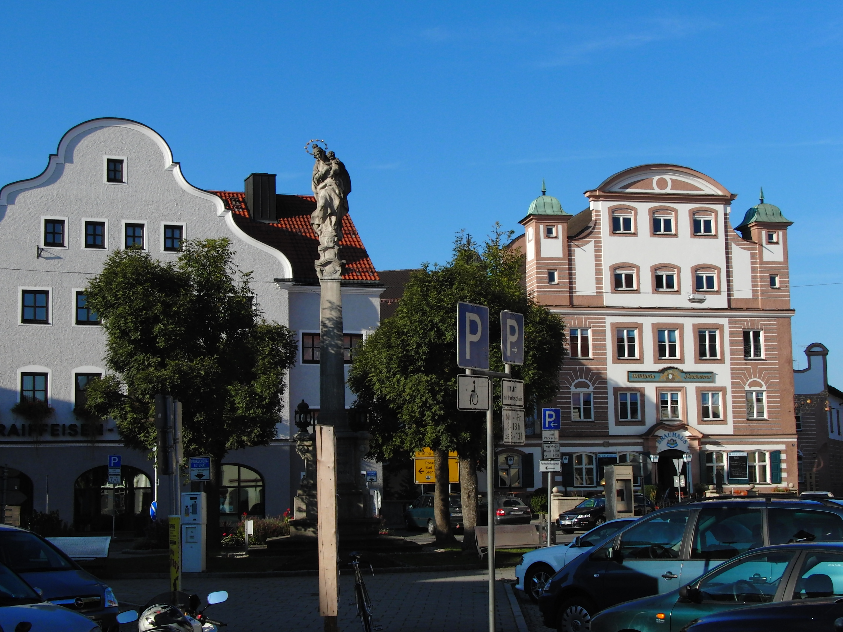 Grafing's market place (looking West) including the local brewery's inn "Wildbräu"